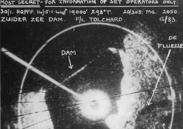 This image shows the Zuiderzee as seen by the H2S radar at an altitude of 19,000 while operated by Flight Lieutenant Tolchard.